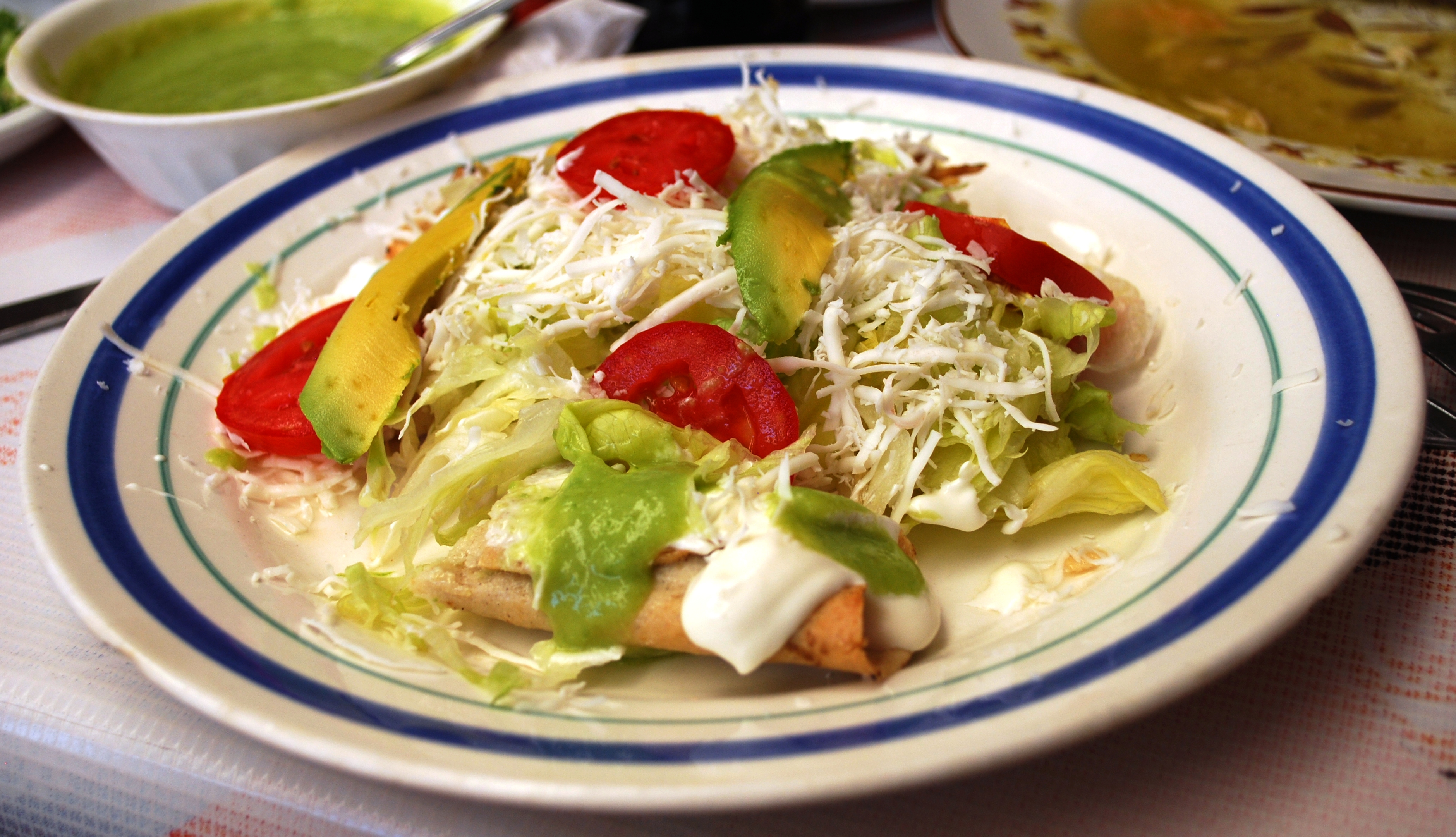 Flautas served at the municipal market in Tequisquiapan, Queretaro, Mexico